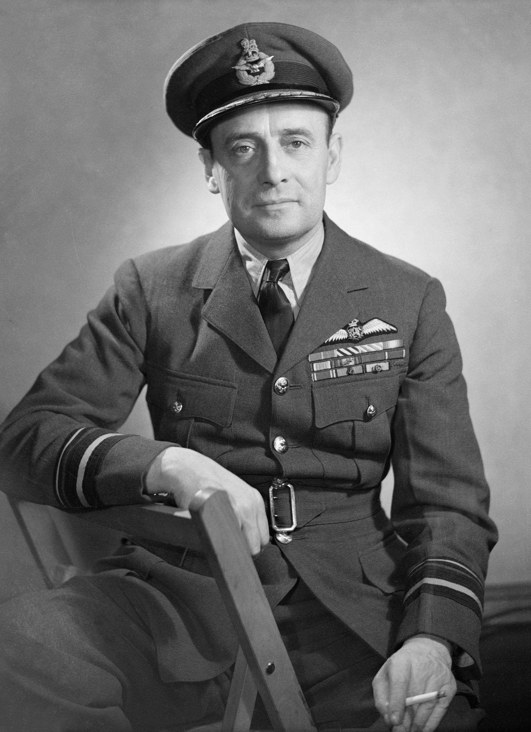 Royal Air Force Coastal Command, 1939-1945. Half-length portrait of Air Vice Marshal H G Smart, Air Officer Commanding No. 17 (Operational Training) Group.